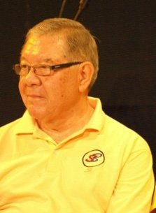 Then-Quezon City Mayor Sonny Belmonte during a meeting de avance. Belmonte successfully ran for a fourth term in the House of Representatives.